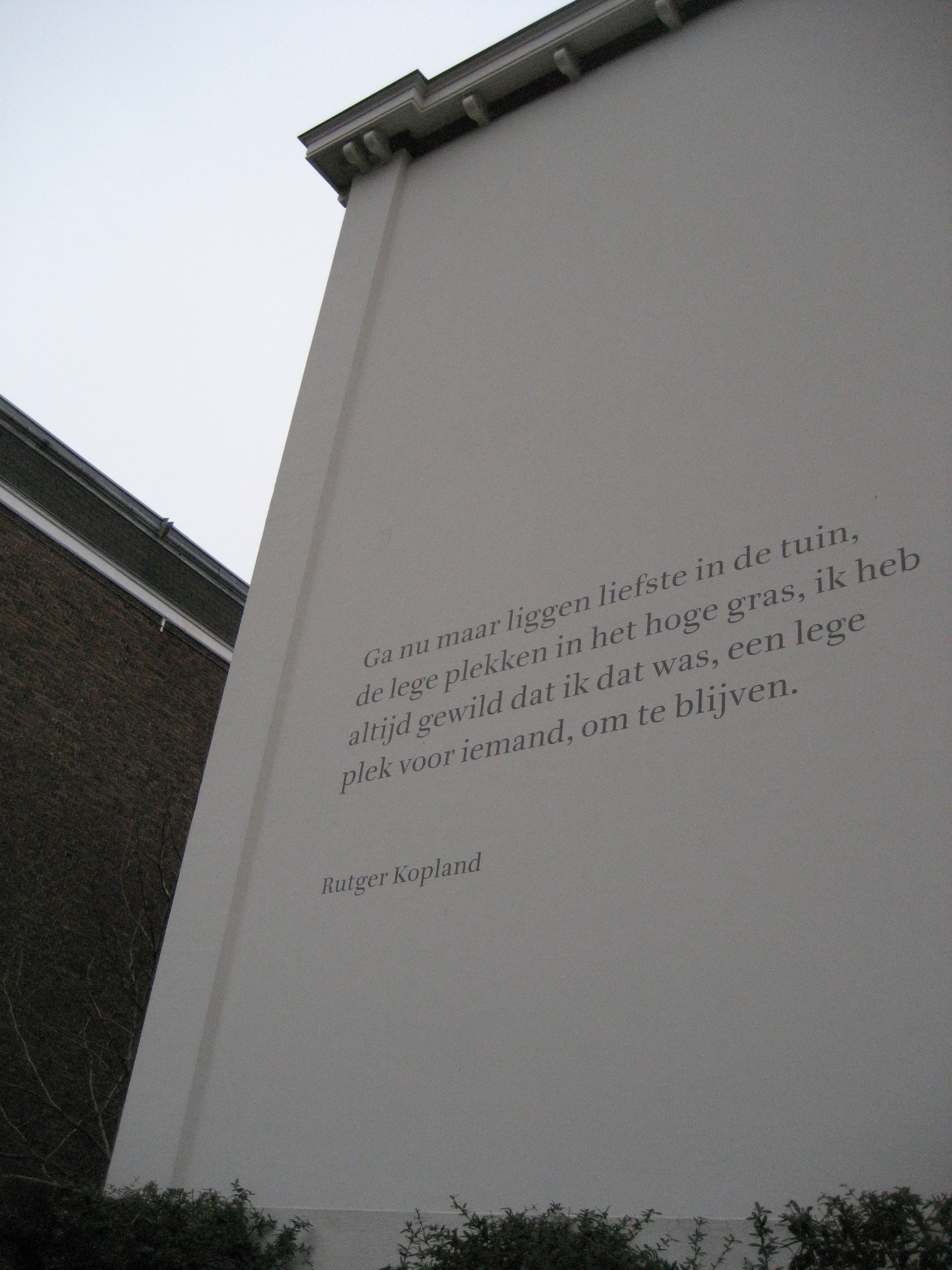 Wall poem 'Een lege plek om te blijven' by Rutger Kopland, Surinamestraat, corner Schuddegeest.Letter: Ruse; typographer: Gerrit Noordzij